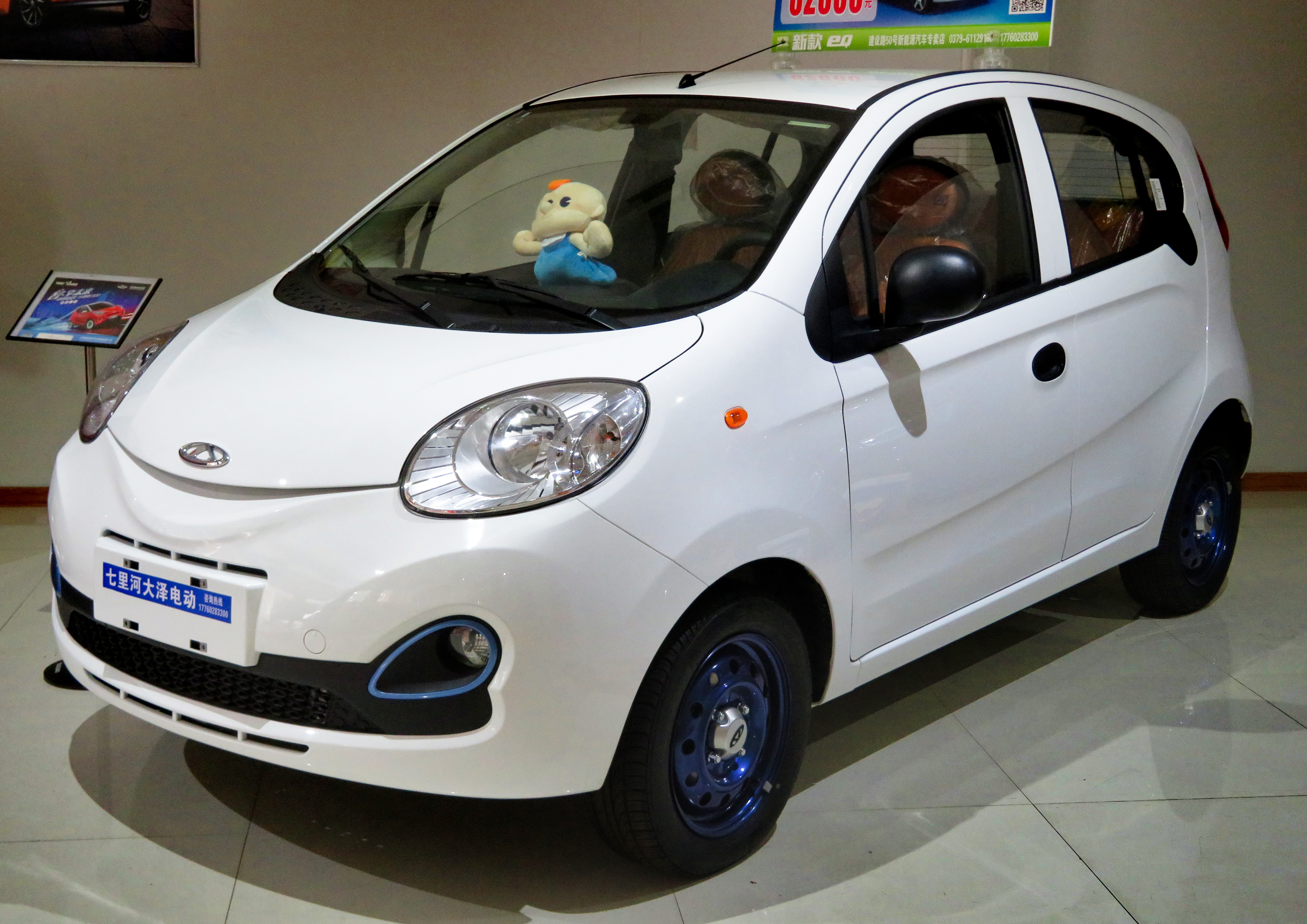 A 2018 Chery eQ photographed in Xigong District, Luoyang, Henan province, China